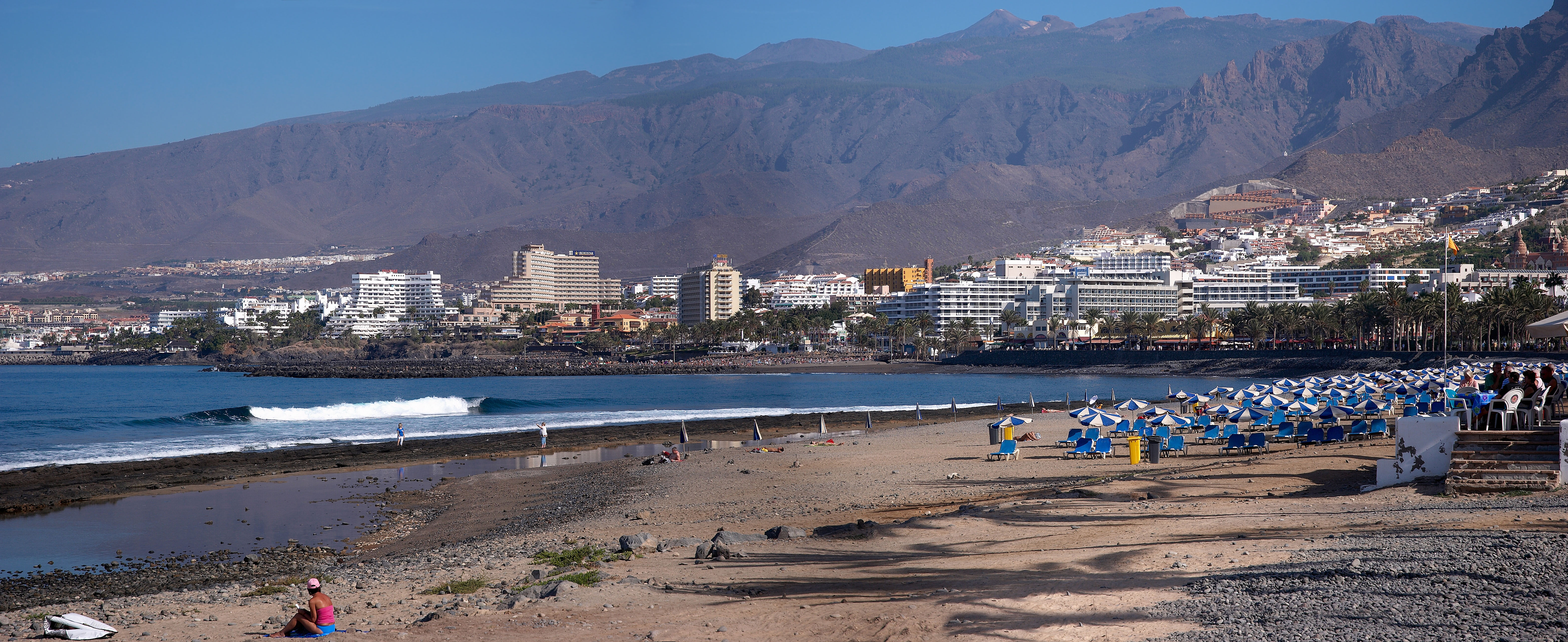 Playa de las Américas -beach at Playa de las Américas in Tenerife